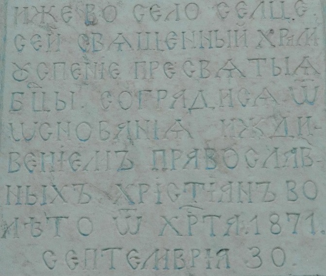 Inscription in Assumption Church, Selce